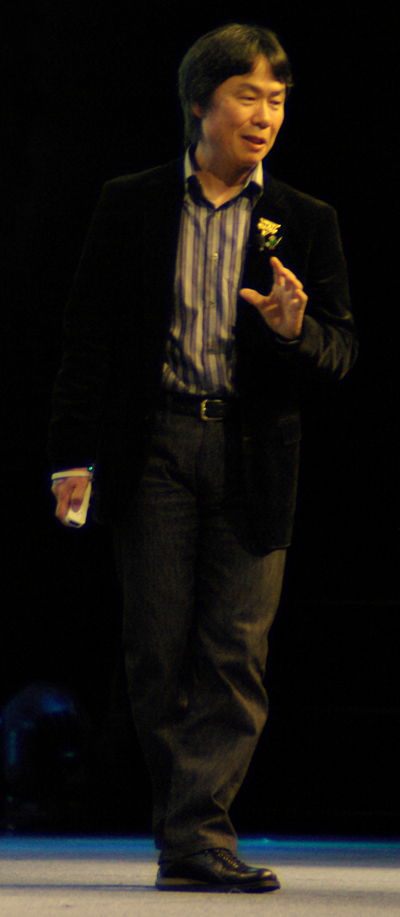 Cropped from this image